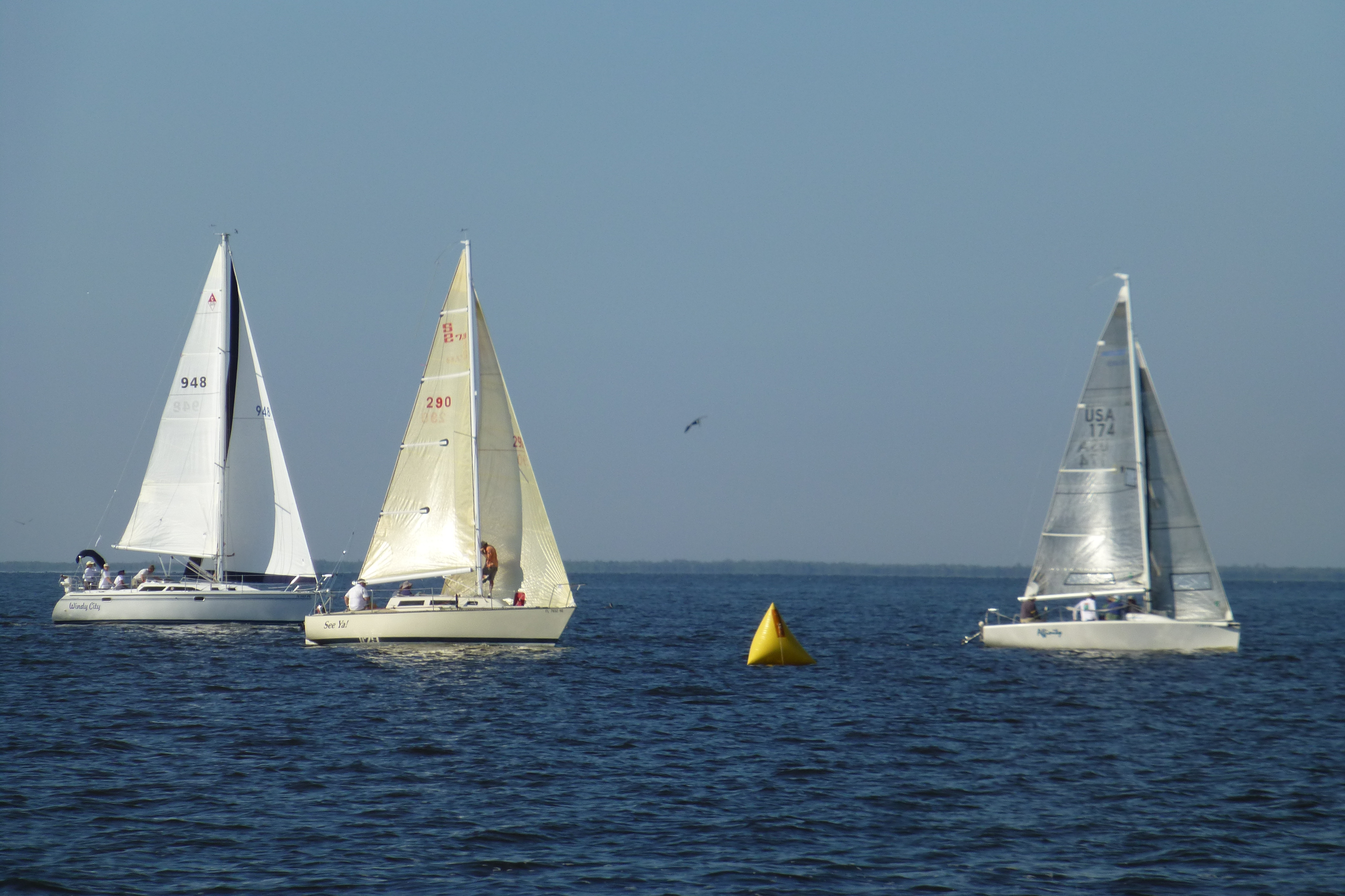 LLS PHRF Racing 3.21.15